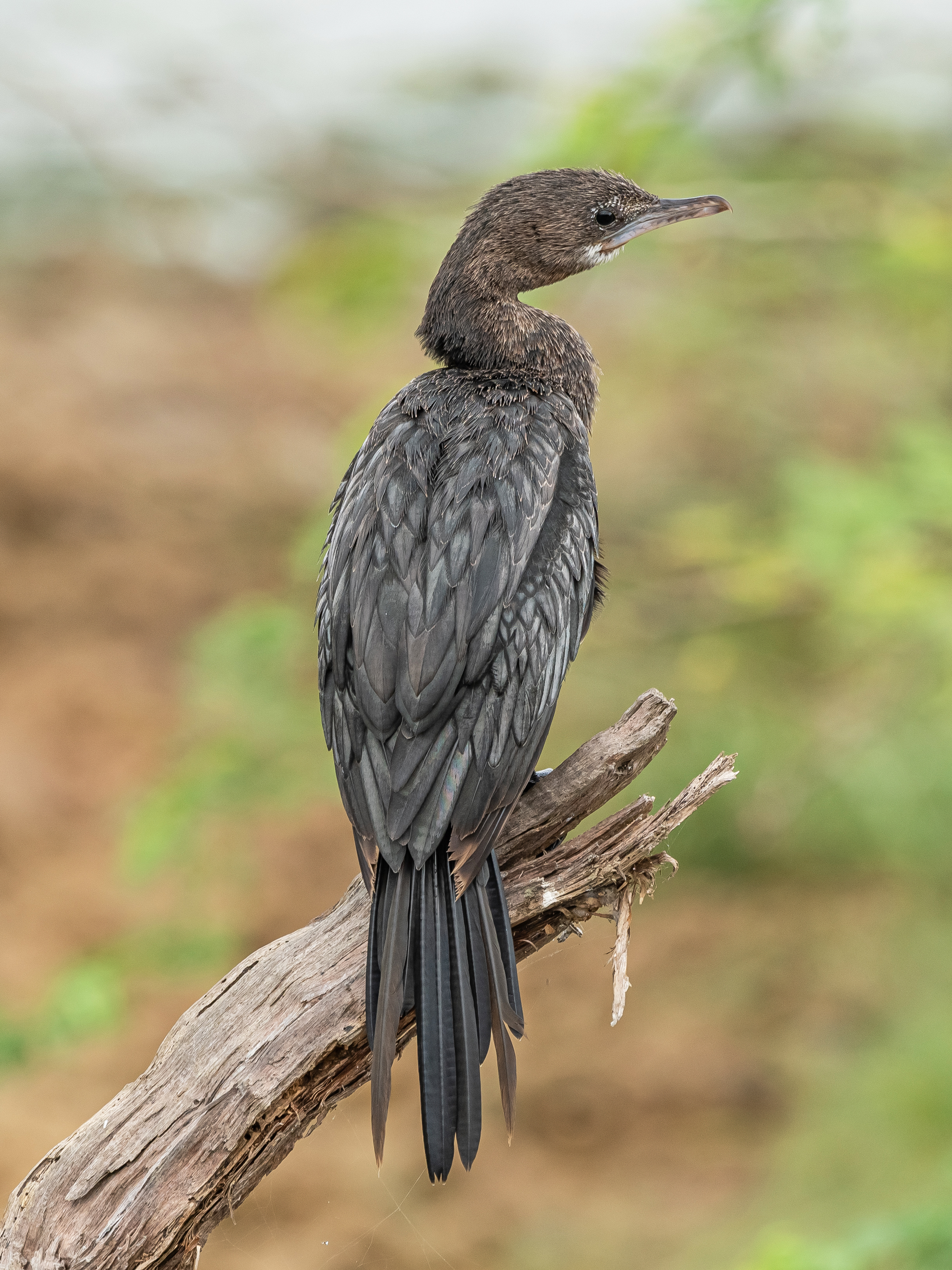 Little Cormorant in Bundala National Park, Sri Lanka